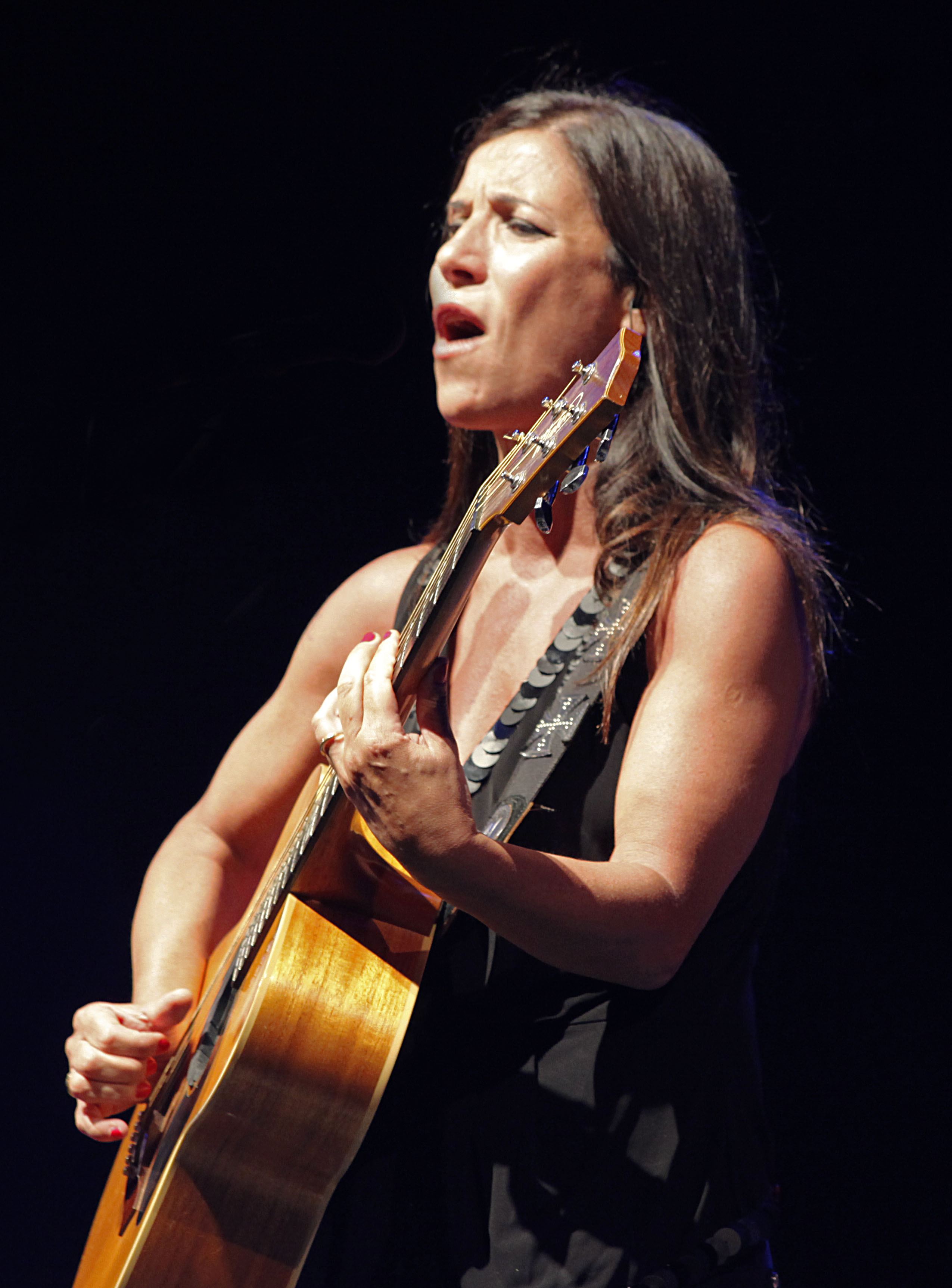 Italian singer, songwriter, performer and author Paola Turci.